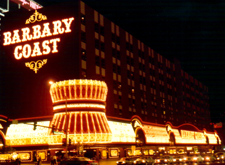 Barbary Coast Hotel and Casino in Paradise, Nevada, United States. The property later became Bill's Gamblin' Hall and Saloon and then The Cromwell.